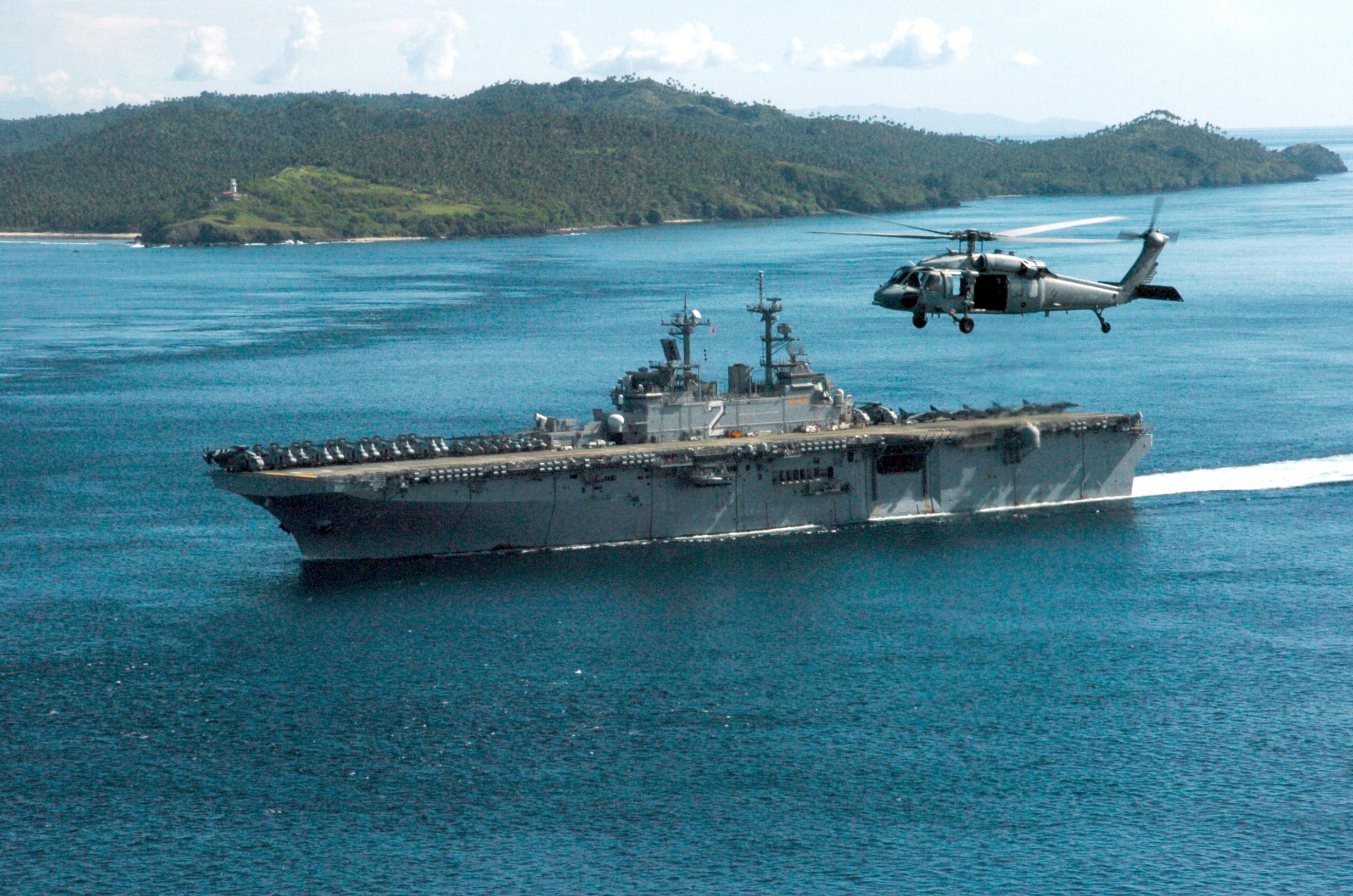 Pacific Ocean (Nov. 4, 2006) - With a MH-60S Seahawk assigned to the “Island Knights” of Helicopter Sea Combat Squadron Two Five (HSC-25) flying as a channel guard, USS Essex (LHD 2) passes the Capul Island Lighthouse as it transits through the San Bernardino Straits after completing a port visit to Subic Bay, Philippines. Essex and 31st MEU were in the Philippines to participate in bilateral exercises, Exercise Talon Vision and Amphibious Landing Exercise (PHIBLEX 07), with the Armed Forces of the Philippines (AFR). U.S. Navy photo by Mass Communication Specialist 1st Class Michael D. Kennedy (RELEASED)